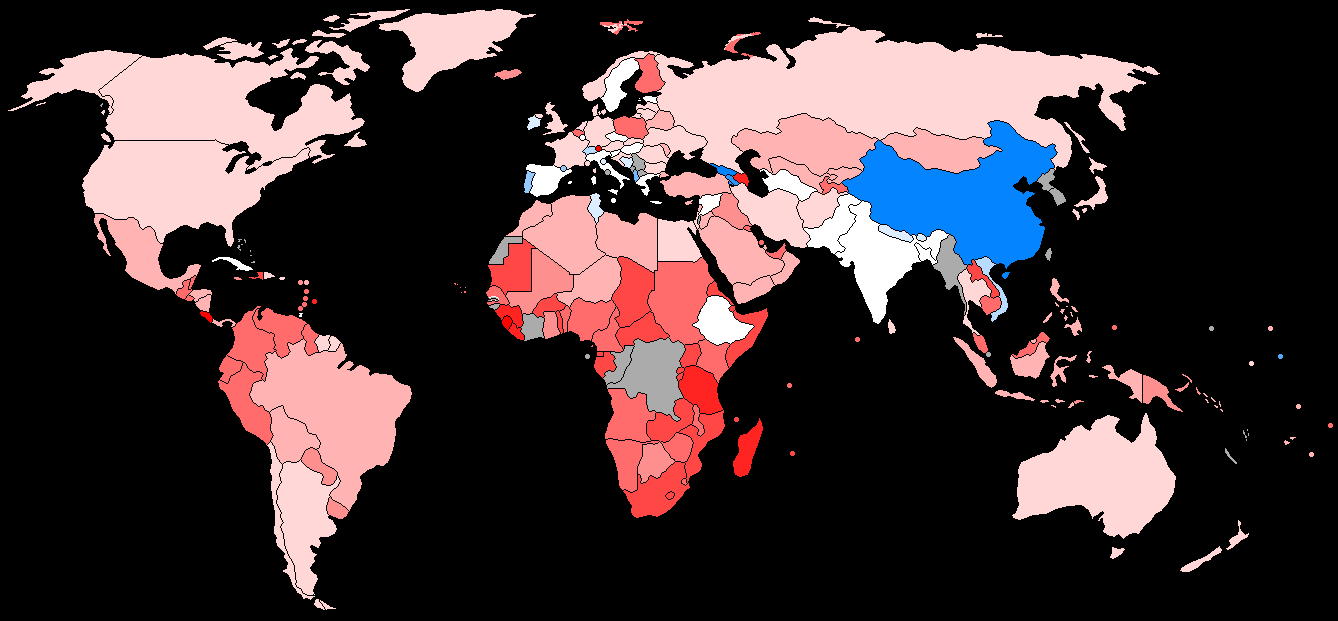 Red, Women / Blue, Men. Sex ratio of the world population under the age of 15, by country.